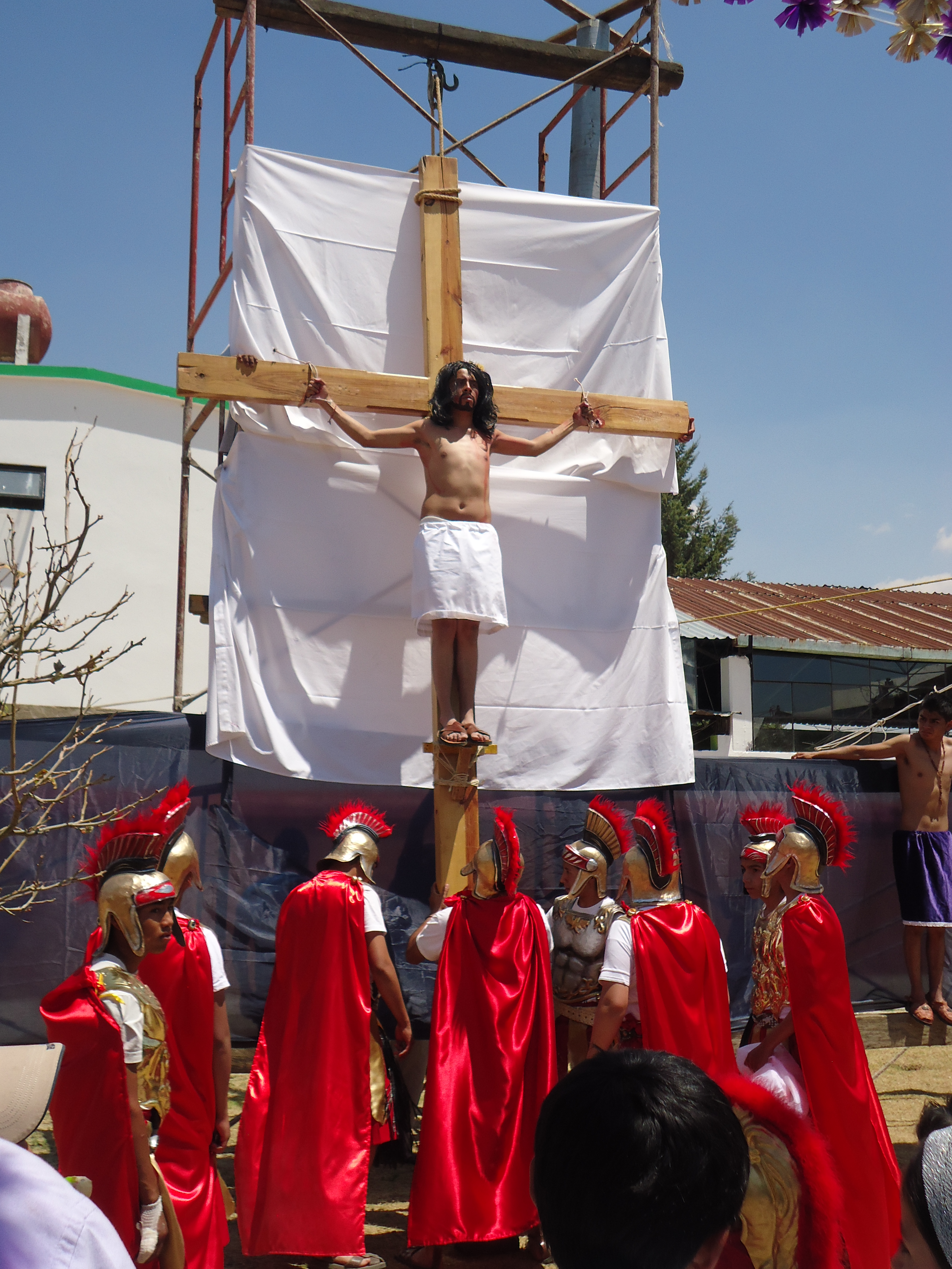 The young that represents Christ is already crucified in San Simon Texcoco